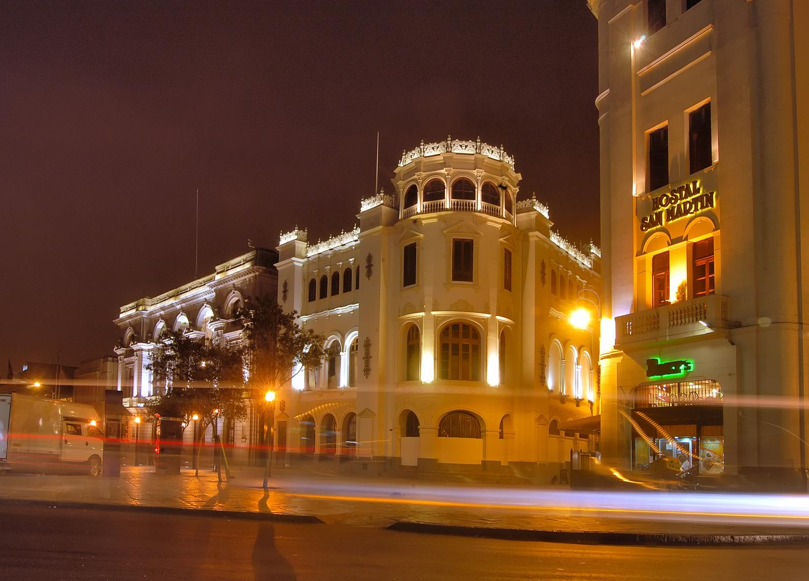 Lima (Peru). Colón Theater (center) and Giacoletti building (right). Both buildings were build in 1914, were pasaje Quilca joins Jirón de la Unión, at the other side of Plaza San Martín.